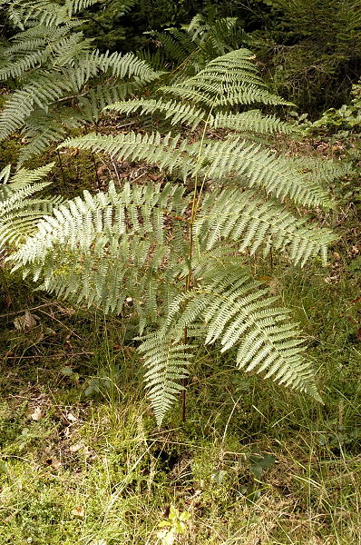 Picture taken in Commanster, Belgian High Ardennes . Species: Pteridium aquilinum